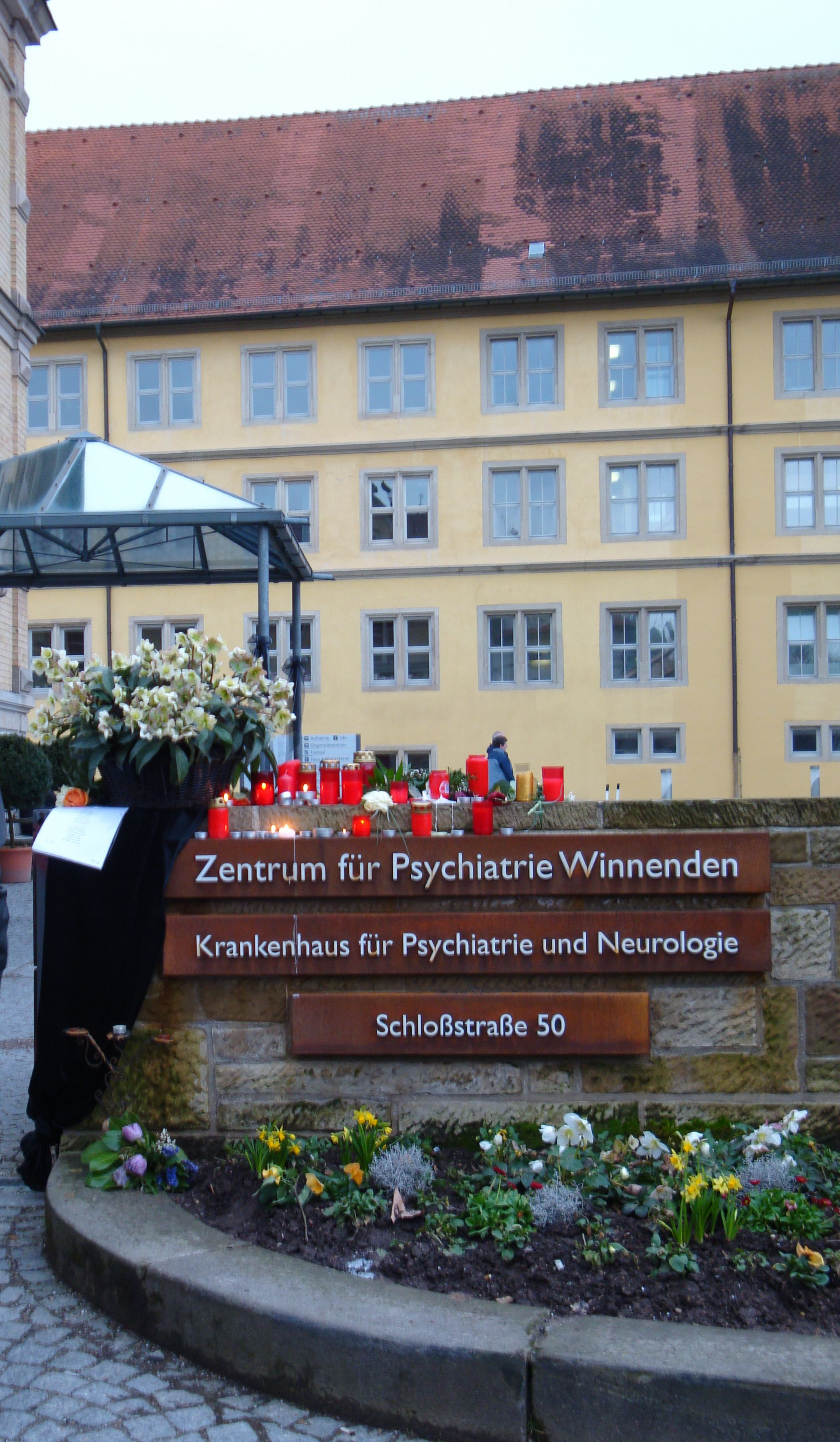 The psychiatric institution, where the perpetrator of Winnenden school shooting killed a 56-year-old employee.